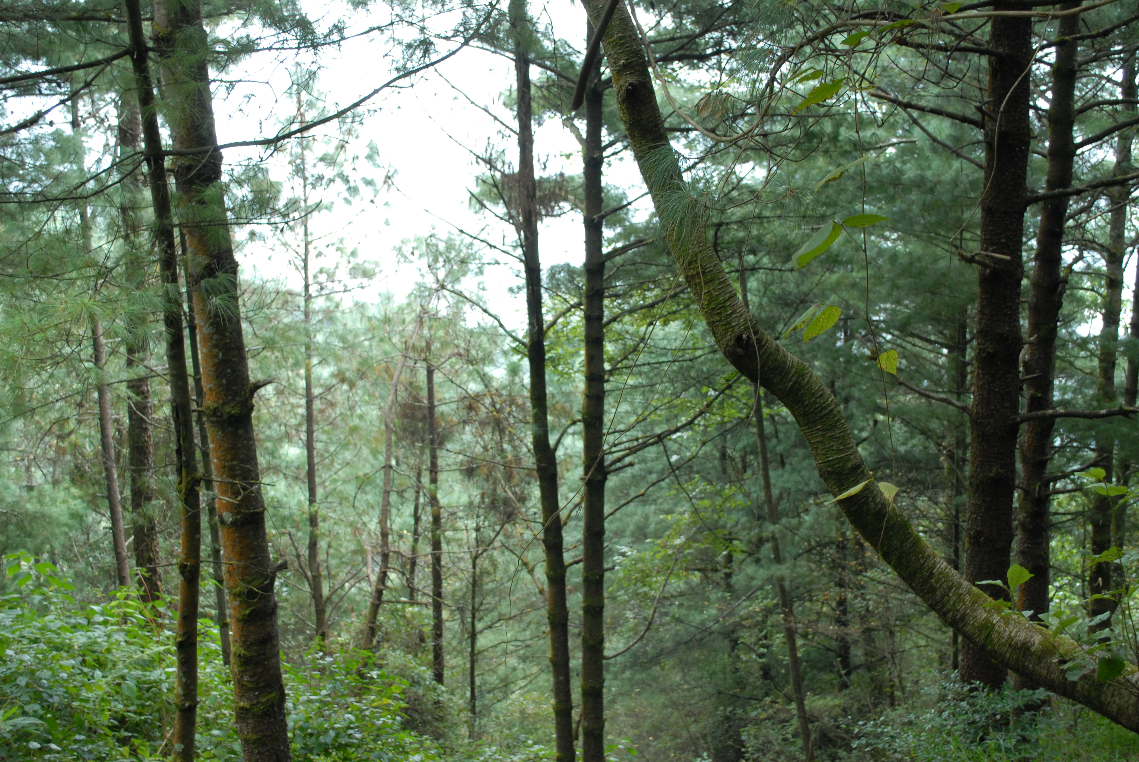 Mountain forest dominated by Pinus armandii, Cangshan Mountain Park, Dali Prefecture, Yunnan Province, China.